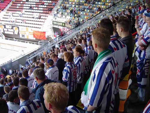 SC Heerenveen supporters. Image shot by uploader.